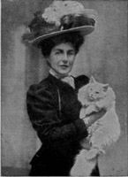 Frances Simpson at the Crystal Palace Show Title Every Woman's Encyclopaedia Author Various Authors Publisher London S.N. Year 1910-1912 Copyright 1910-1912, S.N.